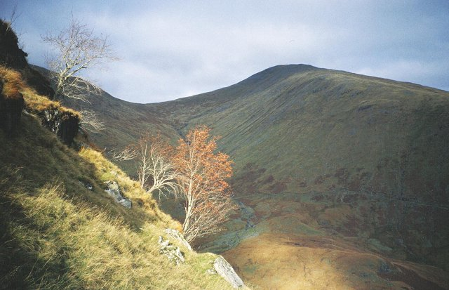 Rowan on Sron an Isean. This steep ridge used to be popular, but Munro bagging nonsense dictates that everyone has to visit the 1126m main summit of Ben Cruchan 9945 so this has become a backwater. Once the Dalmally horseshoe was a famous day out. Its good, so take two or more days on Cruachan and enjoy a few more ridges. The background is Beinn Eunaich (989m)